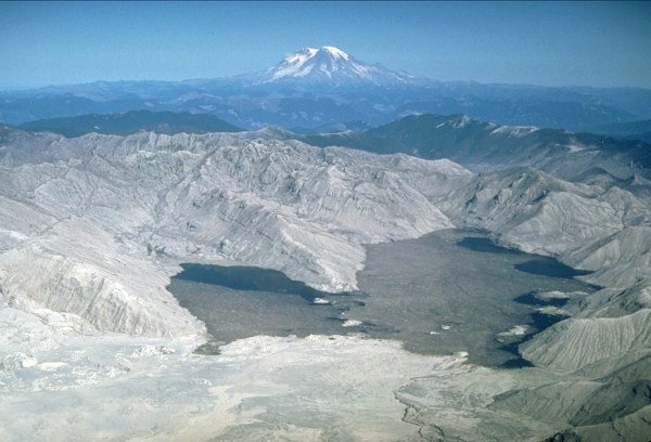 Spirit Lake, once surrounded by lush forest, is within the area devastated by blast from Mt. St. Helens. Remnants of the forest float on the surface of the lake. Another Cascade volcano, Mount Rainier (14,410 feet [4,392 meters]), is in the distance. The view is from the south.